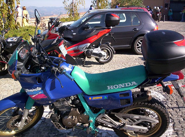 Honda NX650 Dominator (Version 1990)